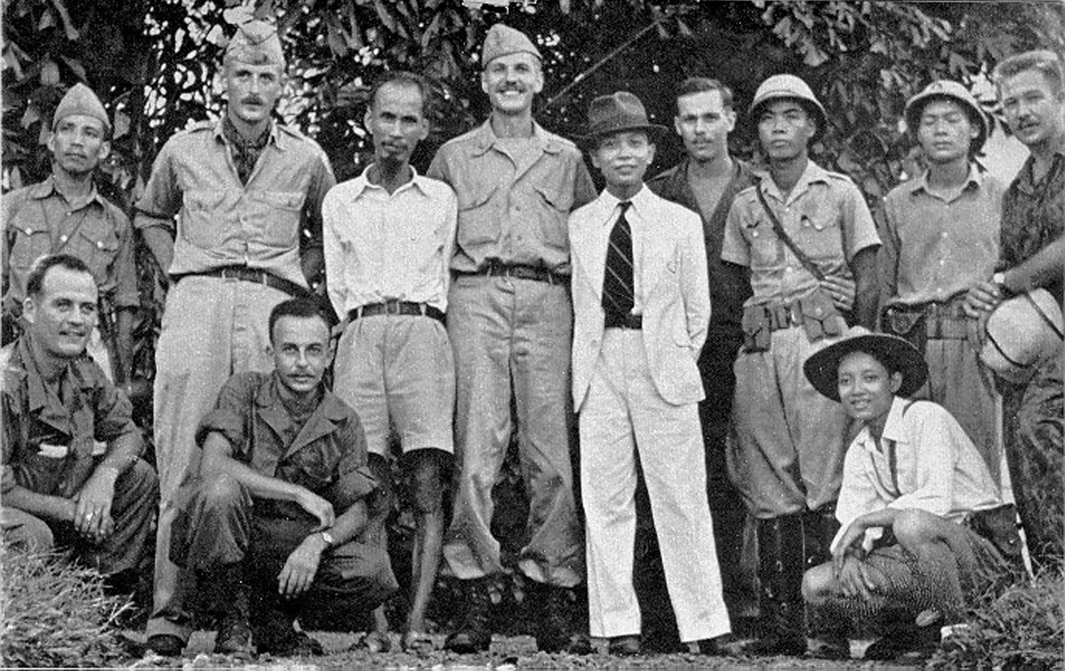 Ho Chi Minh in 1945 (fifth from left standing) with the OSS Deer Team (from l. to r.: Rene Defourneaux, (Ho), Allison Thomas, (Giap), Henry Prunier and Paul Hoagland, far right. Kneeling, left, are Lawrence Vogt and Aaron Squires)